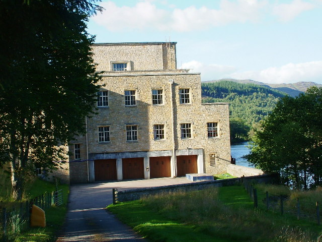 Fasnakyle Power Station. Large Hydroelectric Power Station in Glen Affric.